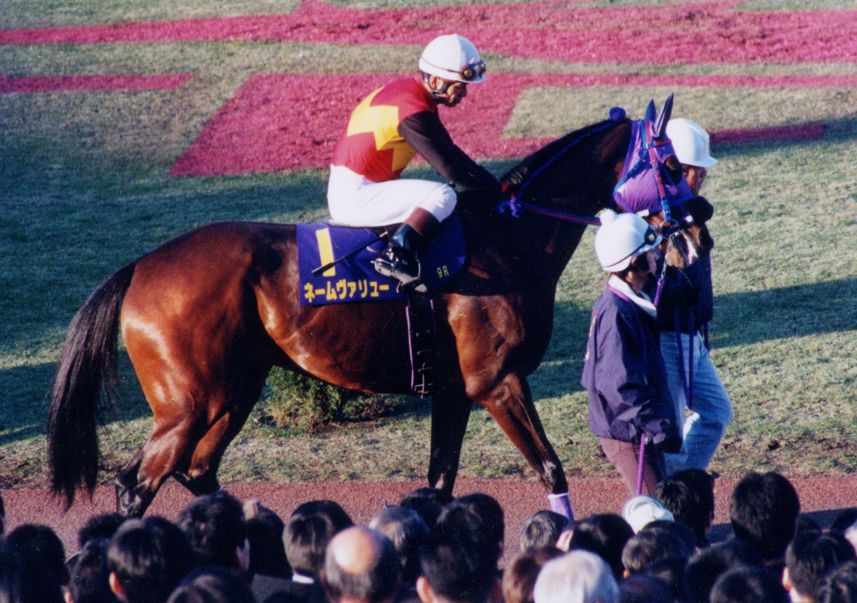 Name Value (horse)